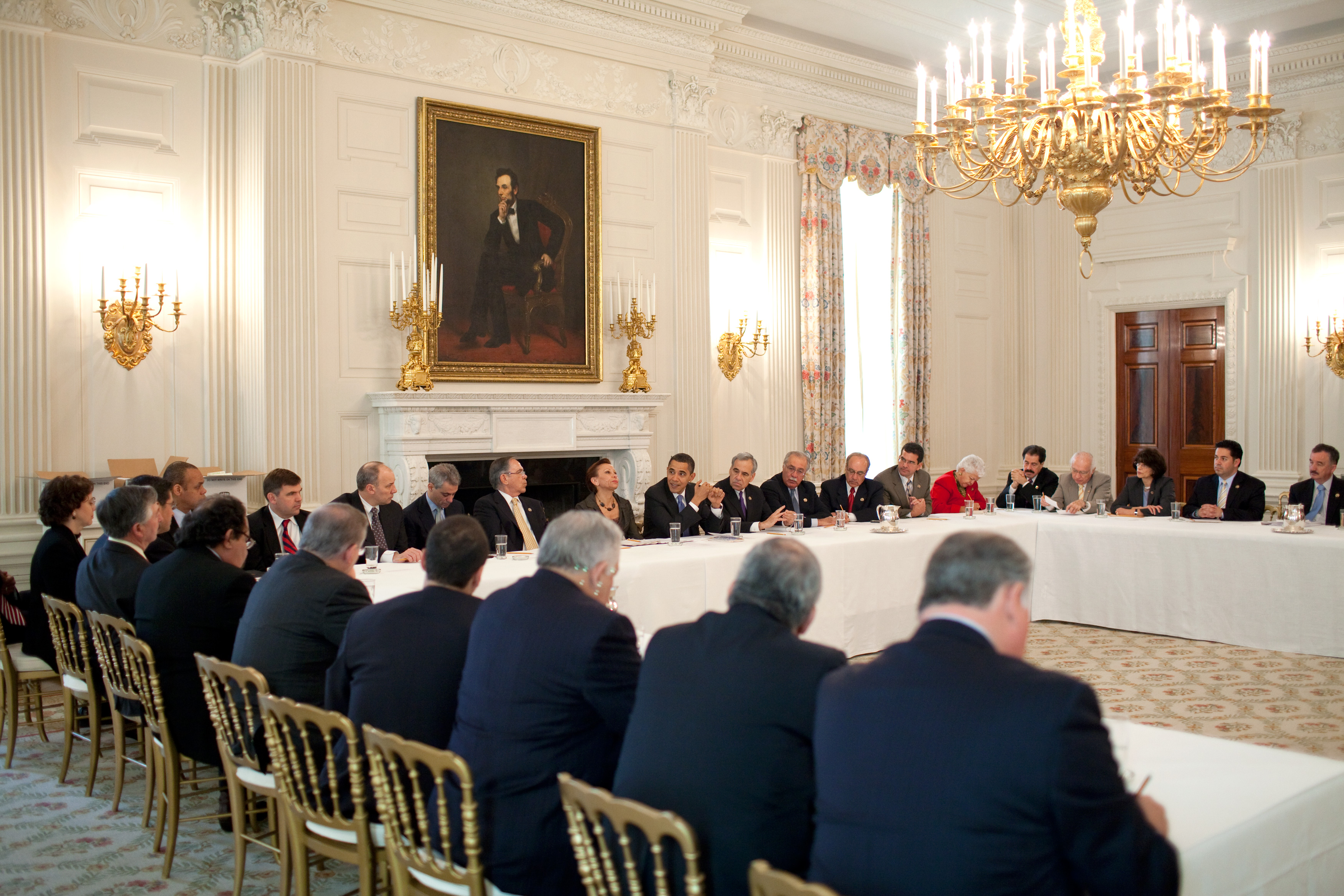 United States President Barack Obama meets with members of the Congressional Hispanic Caucus in the State Dining Room of the White House, March 18, 2009